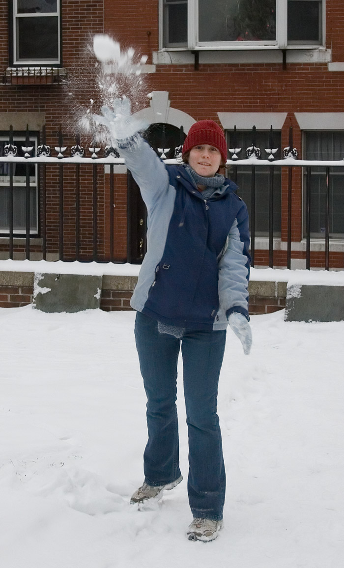 Throwing a snowball in Boston